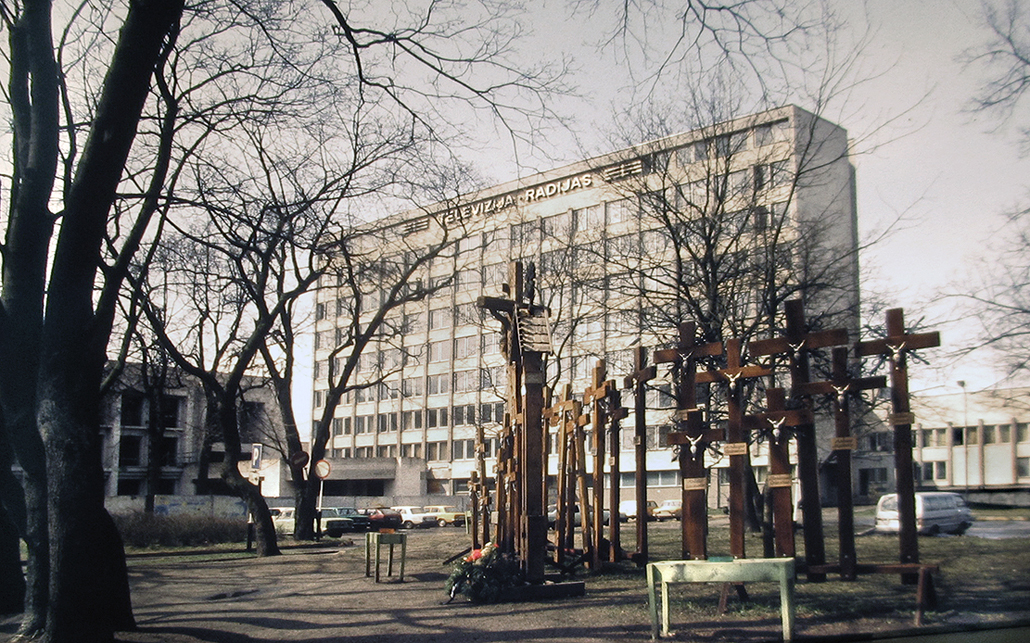 The Television & Radio building in Vilnius, in the foreground cross monument to the fallen 1991.